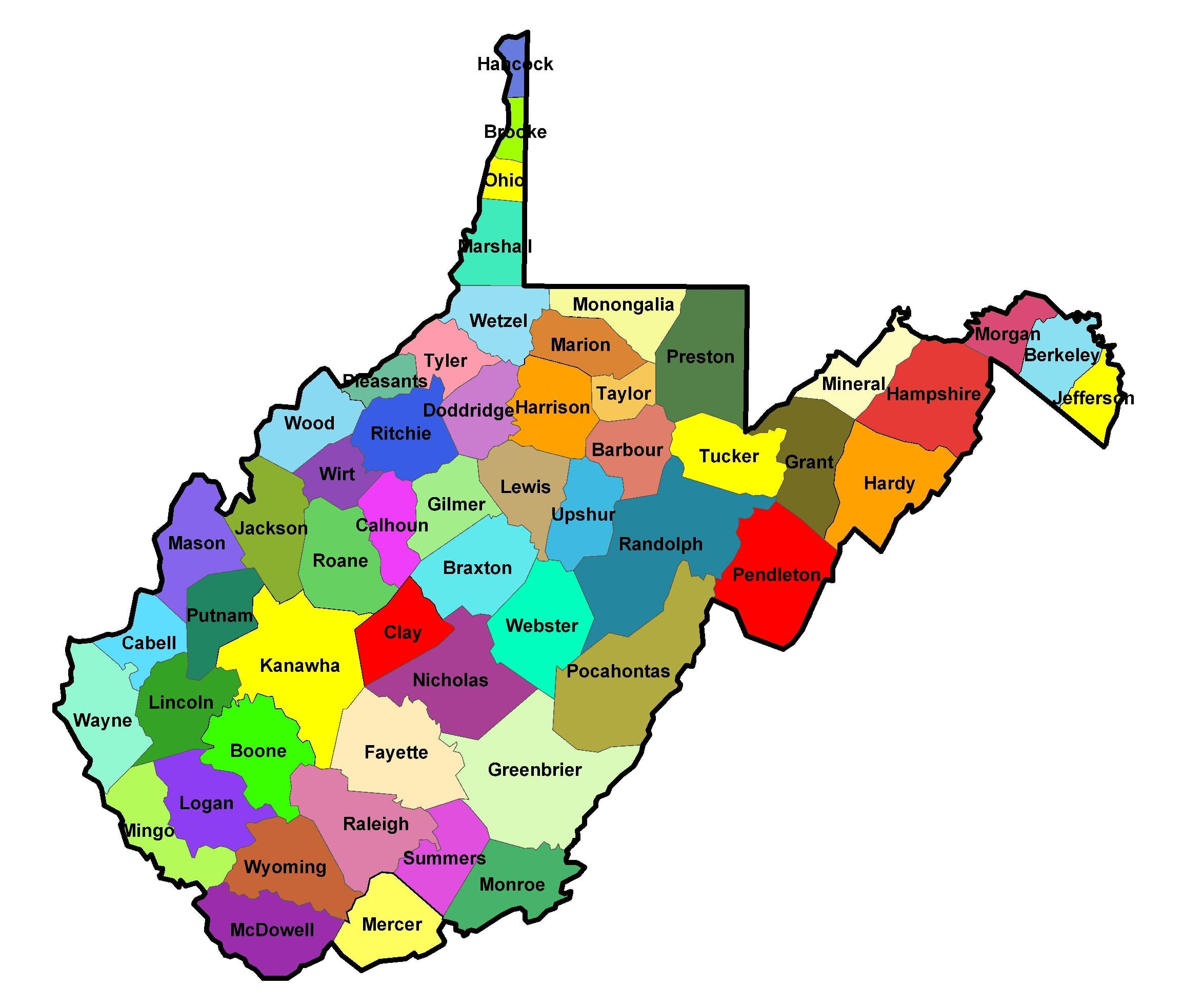 Map of the Counties in West Virginia.